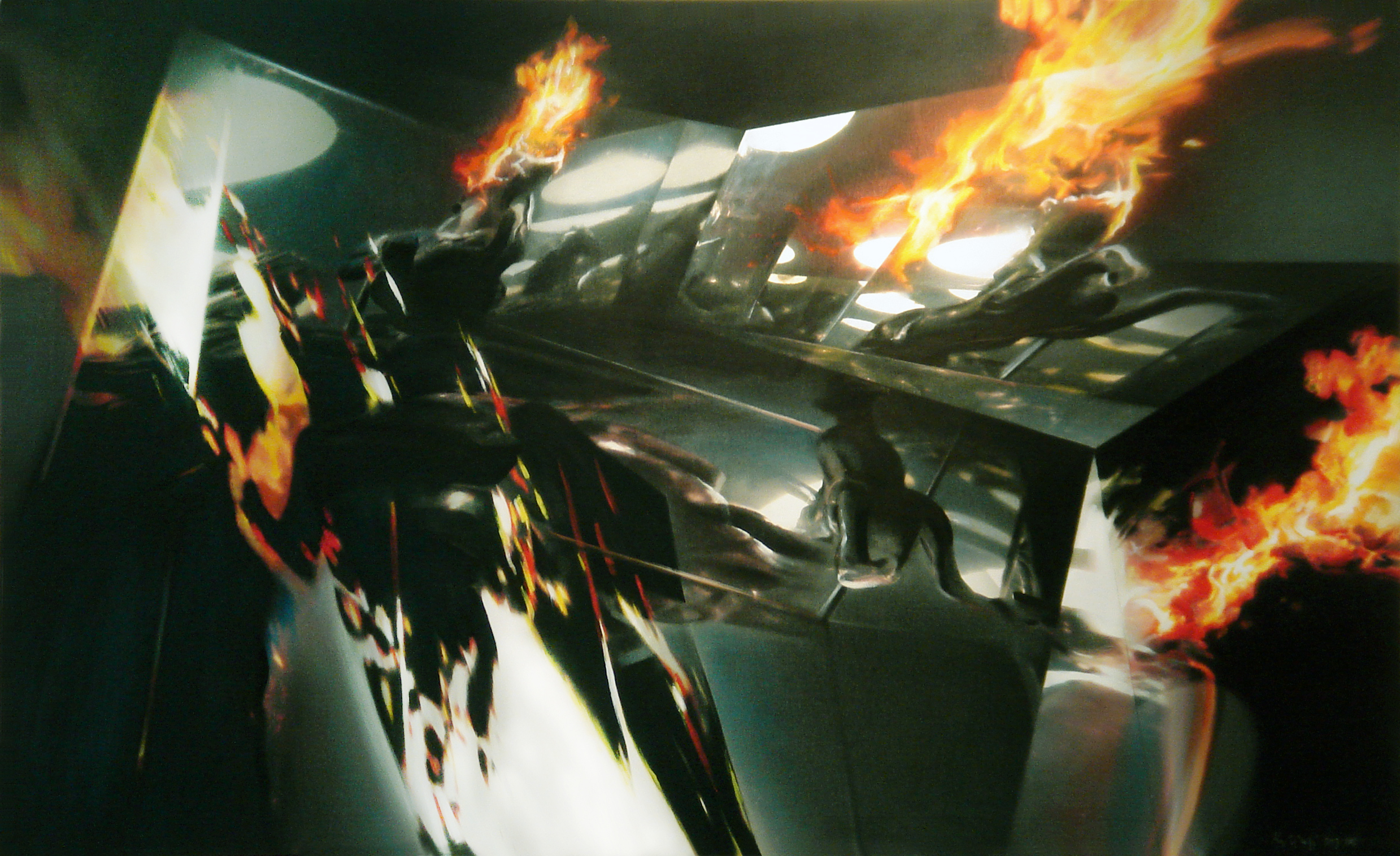 Istvan Kulinyi - Green pictures with blazed horses